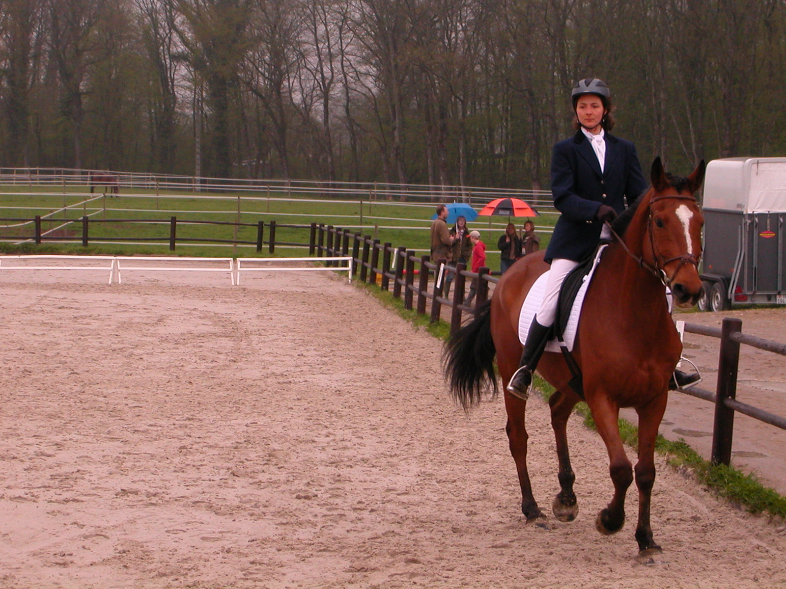 A good example of a horse that moves crookedly, with the haunches naturally turned in. Although he is on three-tracks, the horse lacks the bend and impulsion seen for a true movement of haunches-in.